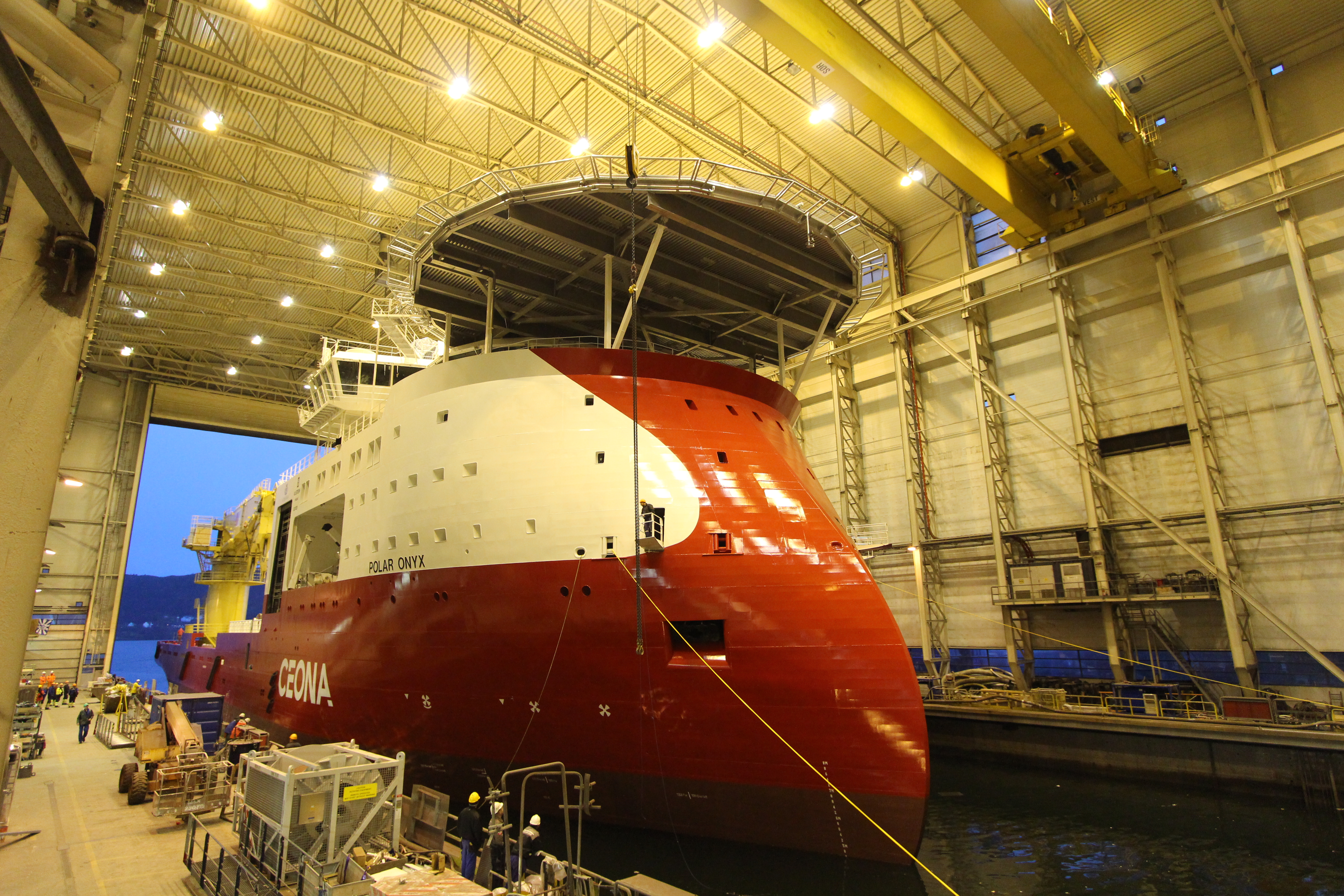 The multi-purpose offshore construction vessel Polar Onyx being launched from the construction dock at Ulstein Verft